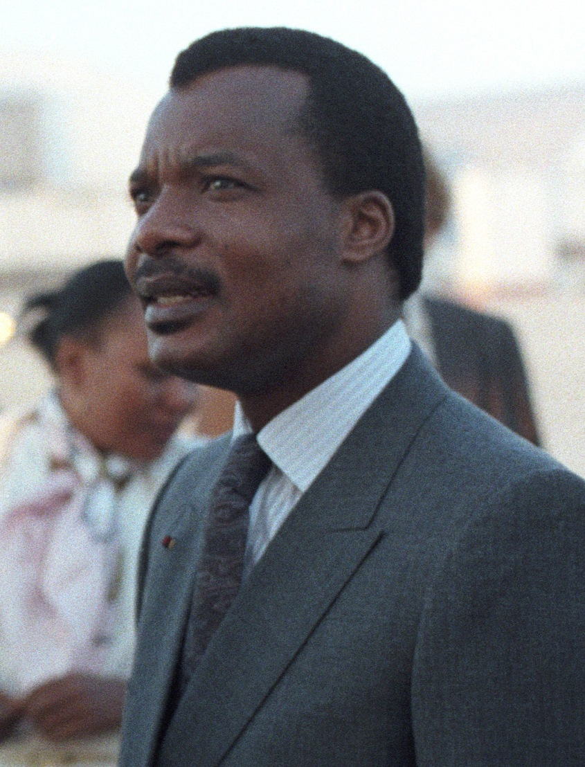 Colonel (COL) Denis Sassou-Nguessou, president of the People's Repubic of the Congo, left, boards his aircraft to leave the country. ANDREWS AIR FORCE BASE, Washington D.C.